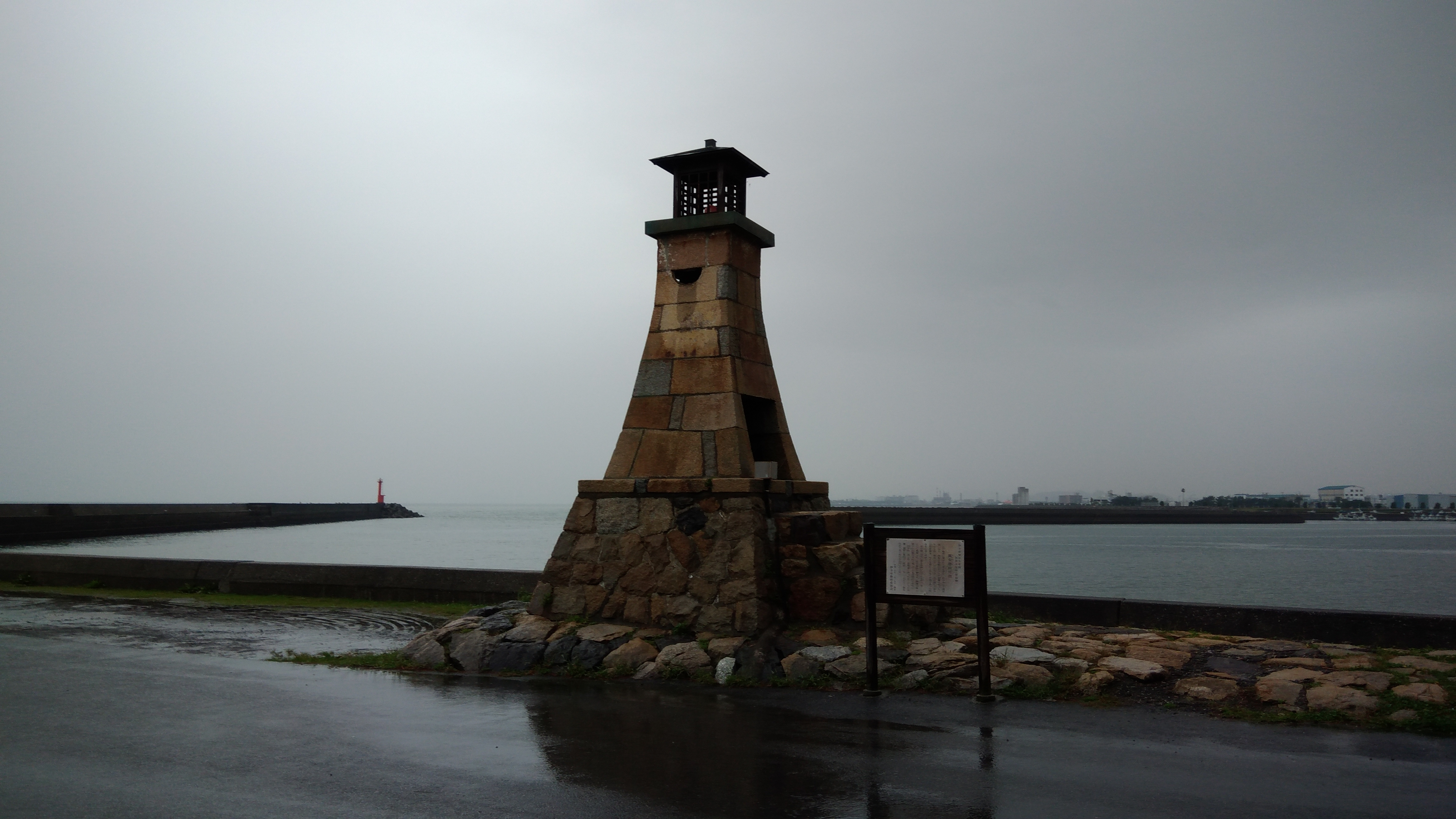 The former lighthouse of the Port of Banan (萬安港), which is located in Goshikihama Park (五色浜公園), Iyo City, Ehime Prefecture, Japan